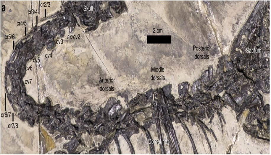 Figure 3: Vertebral column of Jianianhualong tengi holotype DLXH 1218. (a) Presacral vertebrae. (b) Caudal vertebrae. Scale bar, 2 cm. ax, axis; cd, caudal vertebra; ch, chevron; cr, cervical rib; cv, cervical vertebra.